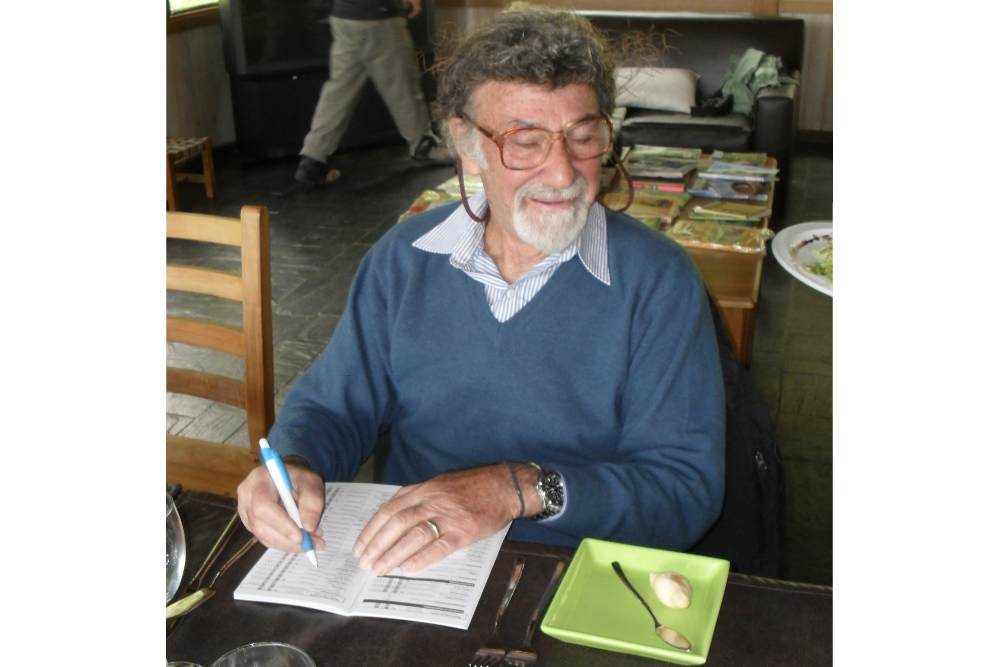 Tito Narosky